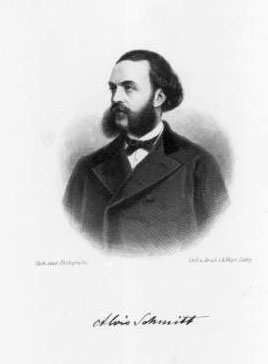 The Portrait of composer Georg Aloys Schmitt (1827-1902)